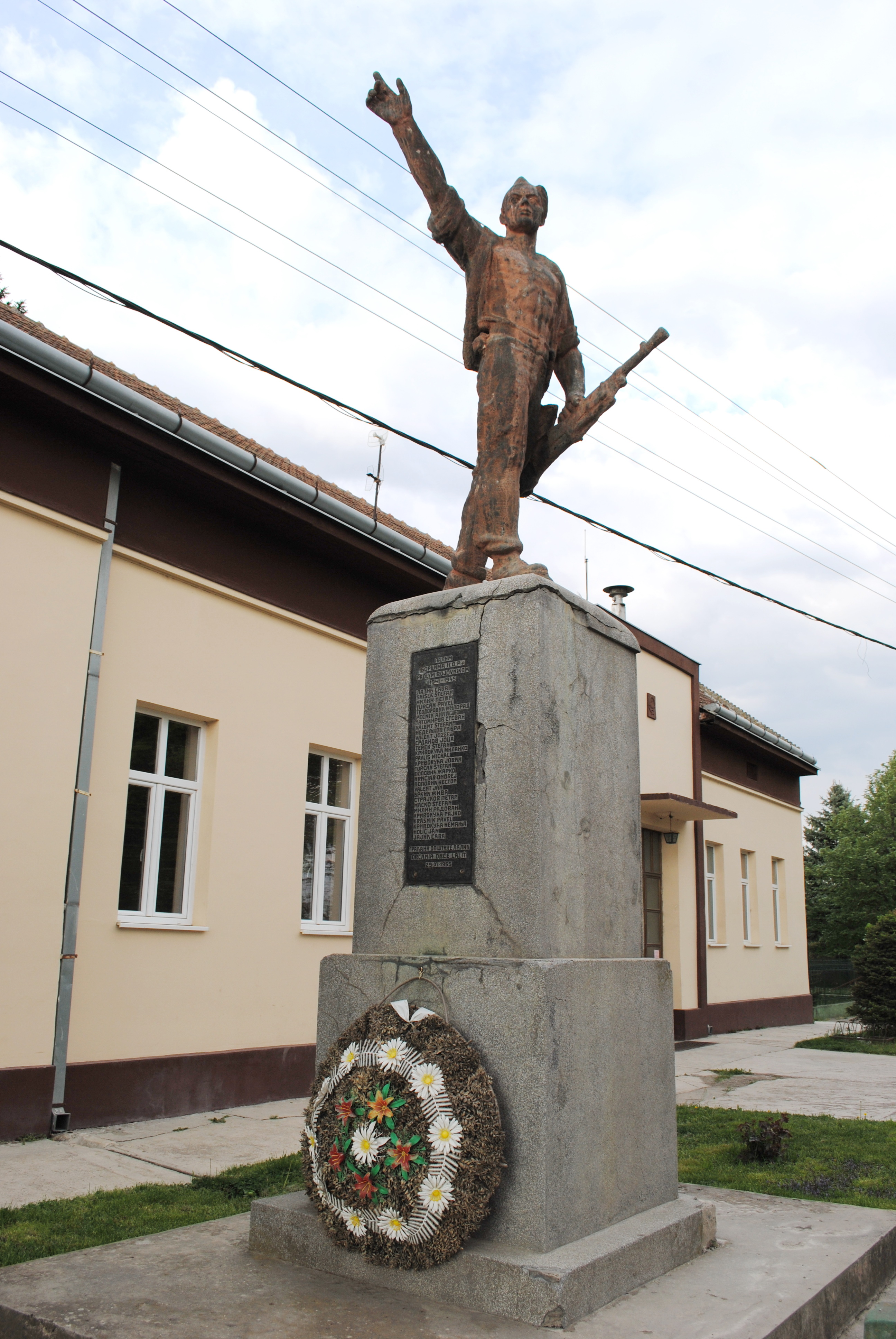 Monument to soldiers who died in WW2 Srpski (latinica): Spomenik palim borcima u mestu Lalić, u opštini Odžaci